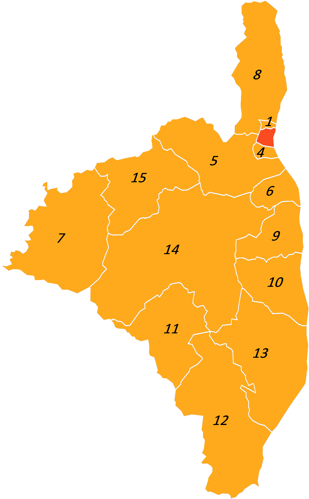 Map of the 15 electoral cantons of the French department of Haute-Corse, made official in 2015 (marked red Bastia includes cantons Bastia-2, Bastia-3 and partly Bastia-1 and Bastia-4).